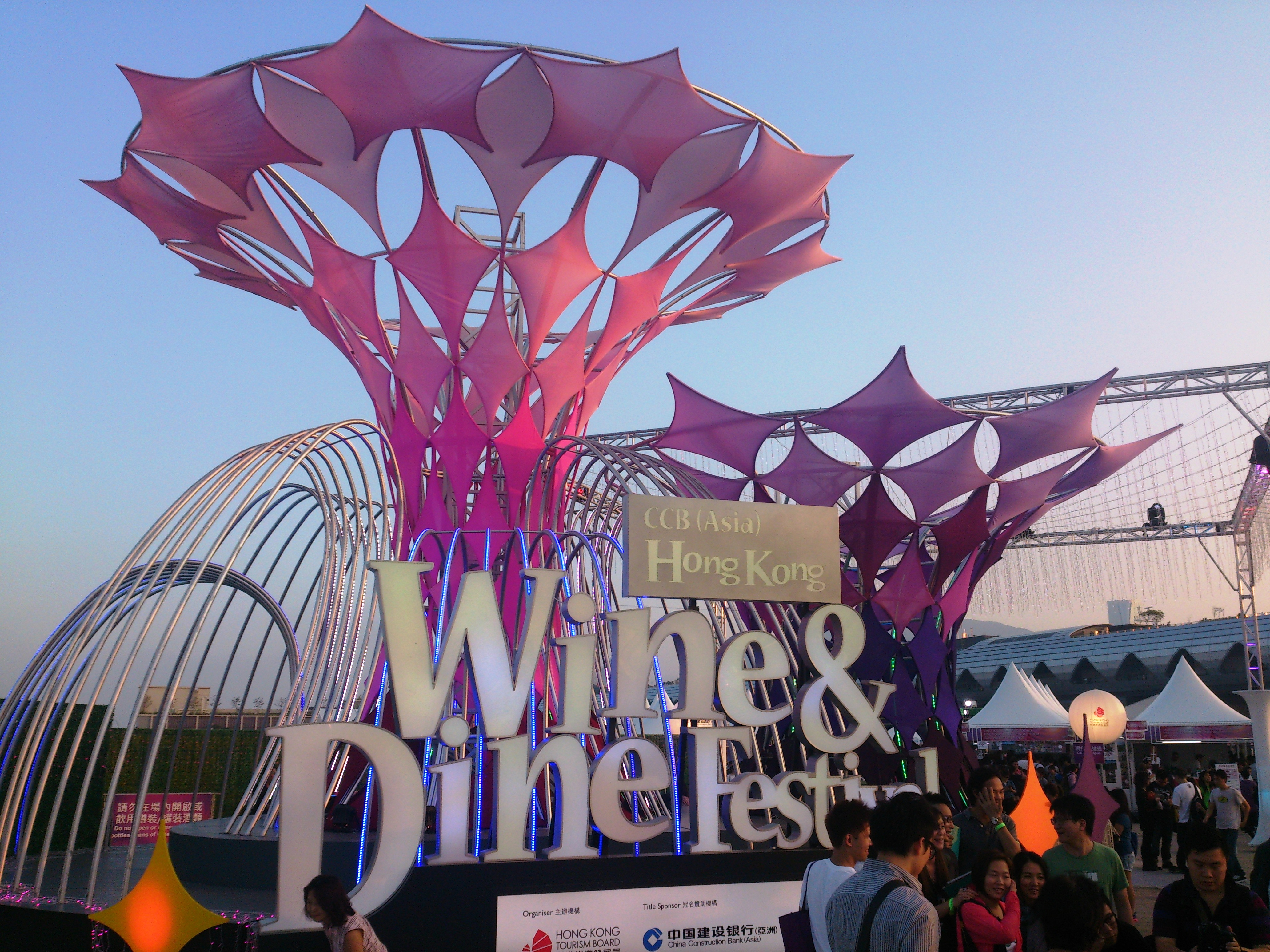 Hong Kong Wine and Dine Festival 2014 Entrance